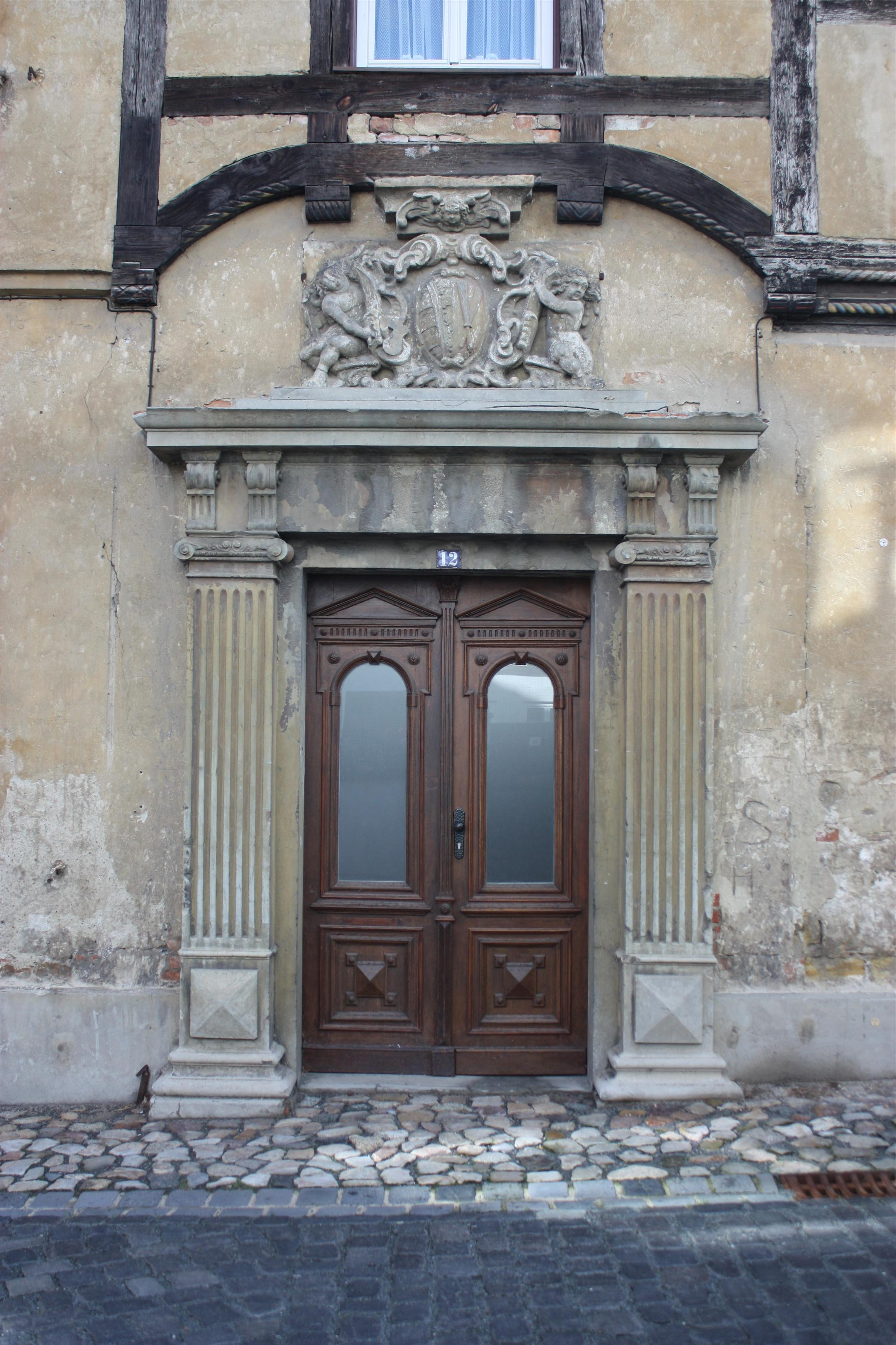 This is a photograph of an architectural monument.It is on the list of cultural monuments of Quedlinburg Quedlinburg Lange Gasse